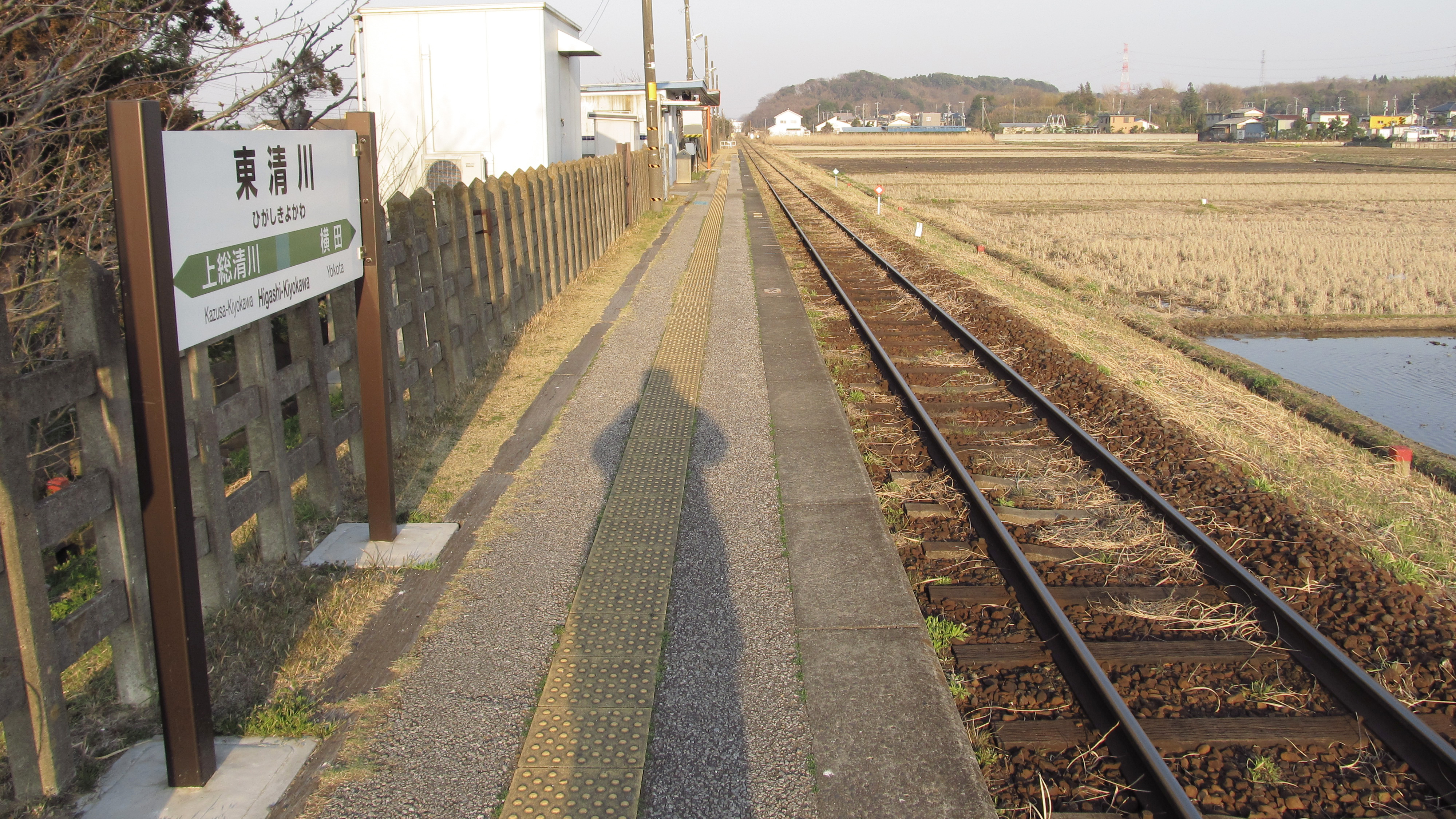 The platform at Higashi-Kiyokawa Station on the Kururi Line in Kisarazu city, Chiba prefecture, Japan